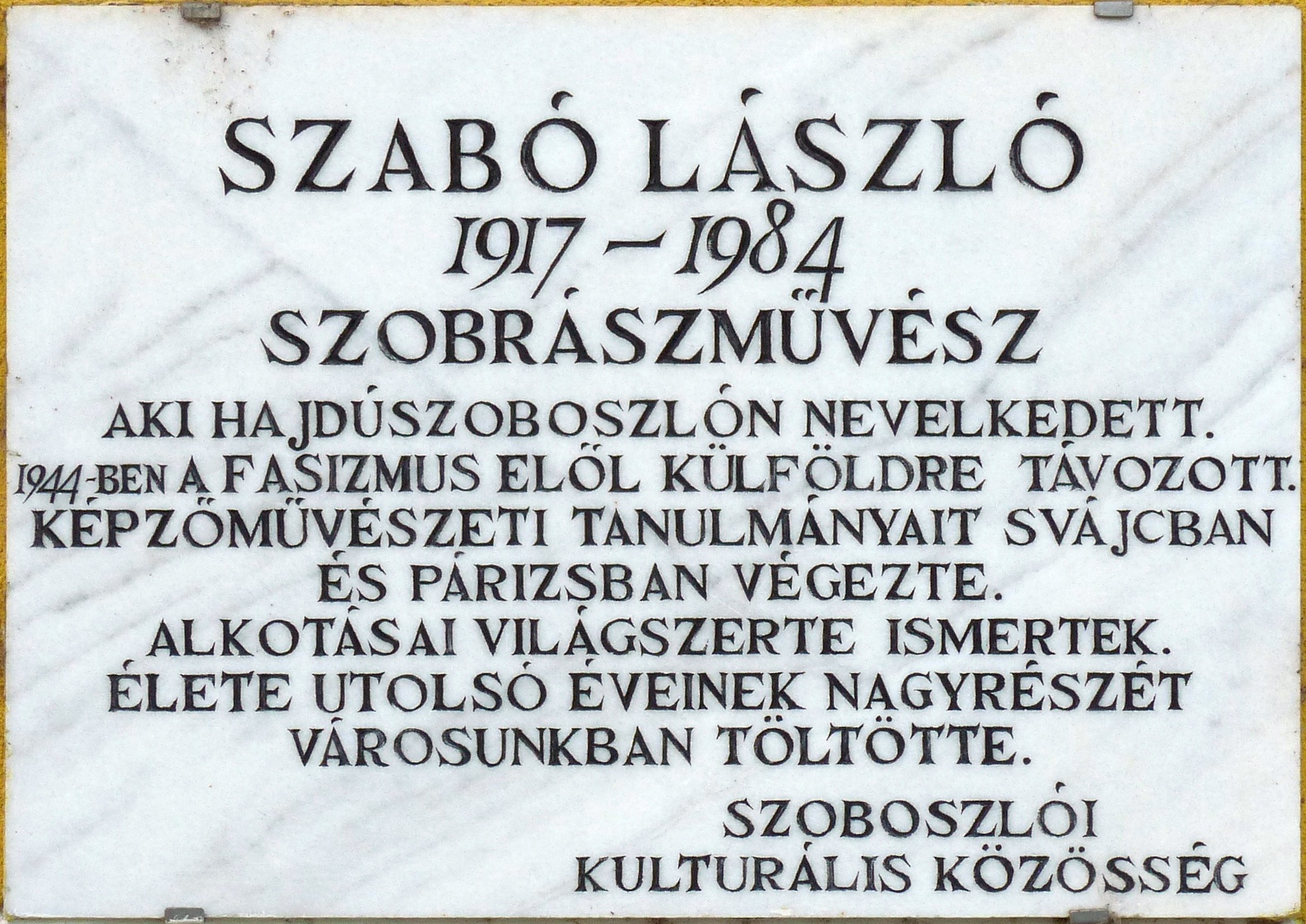 Commemorative plaque to Mr. László Szabó (1917–1964) Hungarian sculptor installed in the street that bears his name. (No 1 Szabó László Lane, Hajdúszoboszló)